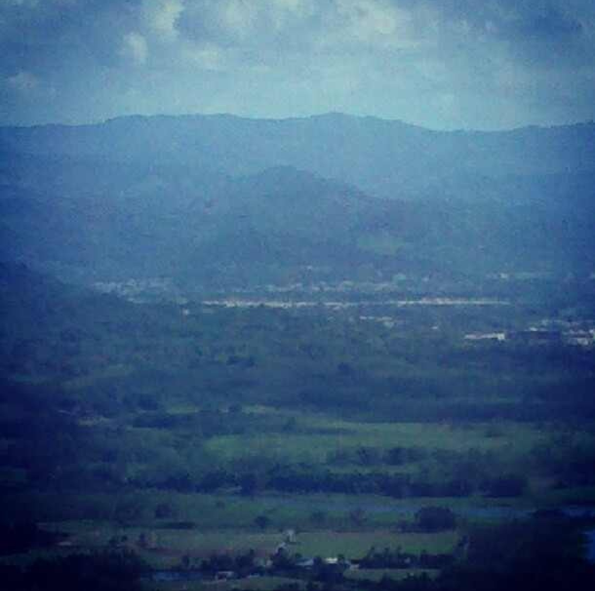 Geography of Gurabo, Puerto Rico.